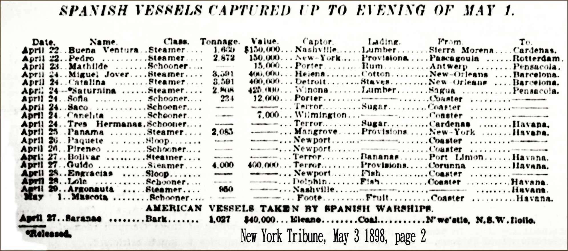 Spanish Vessels captured up the evening of May 1, 1898